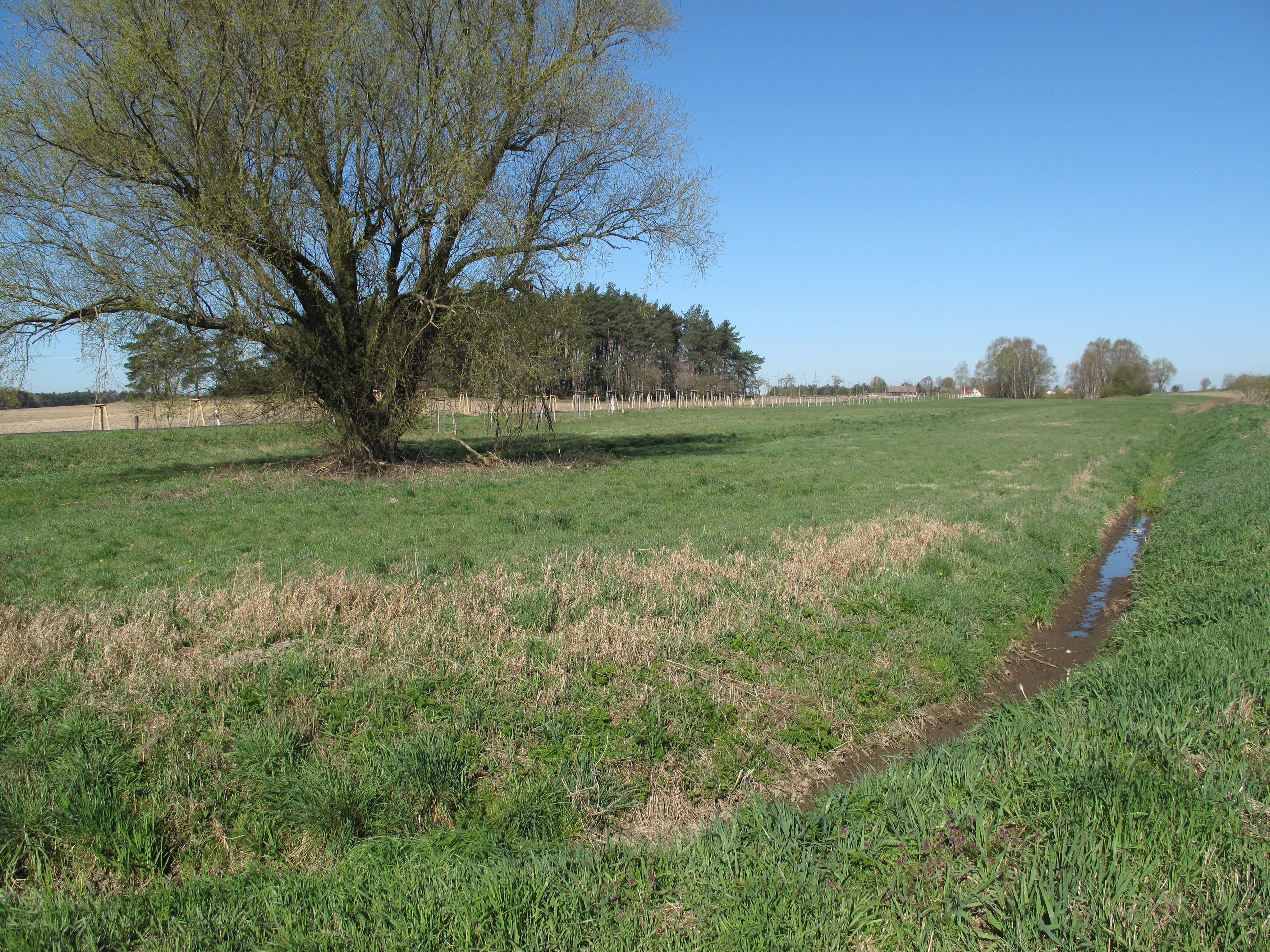 Cultural landscape and Schwenowseegraben (stream) in Behrensdorf. Behrensdorf is a part of the municipality Rietz-Neuendorf in the District Oder-Spree, Brandenburg, Germany.